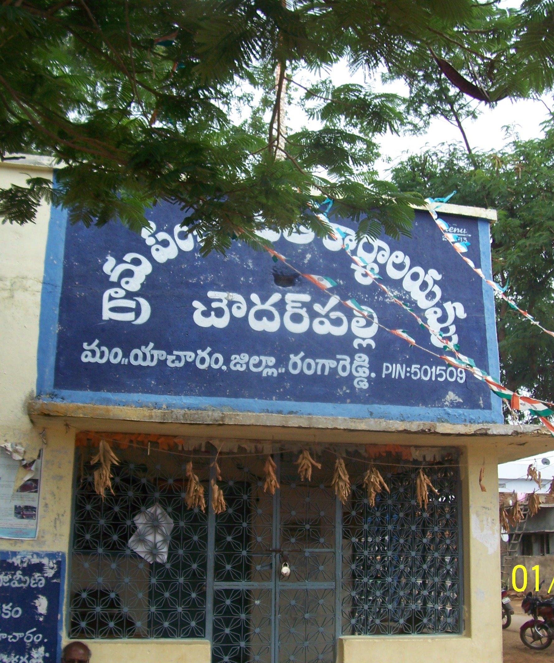 Grama panchatat office, chaudar palle